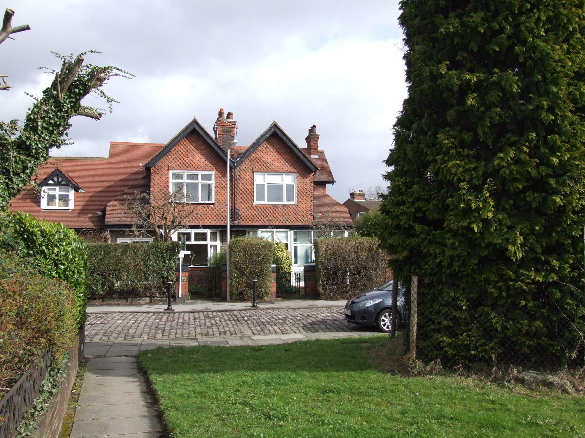 Heaton Chapel is situated in Stockport, in the direction of Manchester. It lies at the junction of the A6 road and the A626. The railway runs parallel to the A6.. . Typical substantial carefully designed period houses in a quiet road, that still boasts original features such as cobble stones - Google Maps - Google Earth